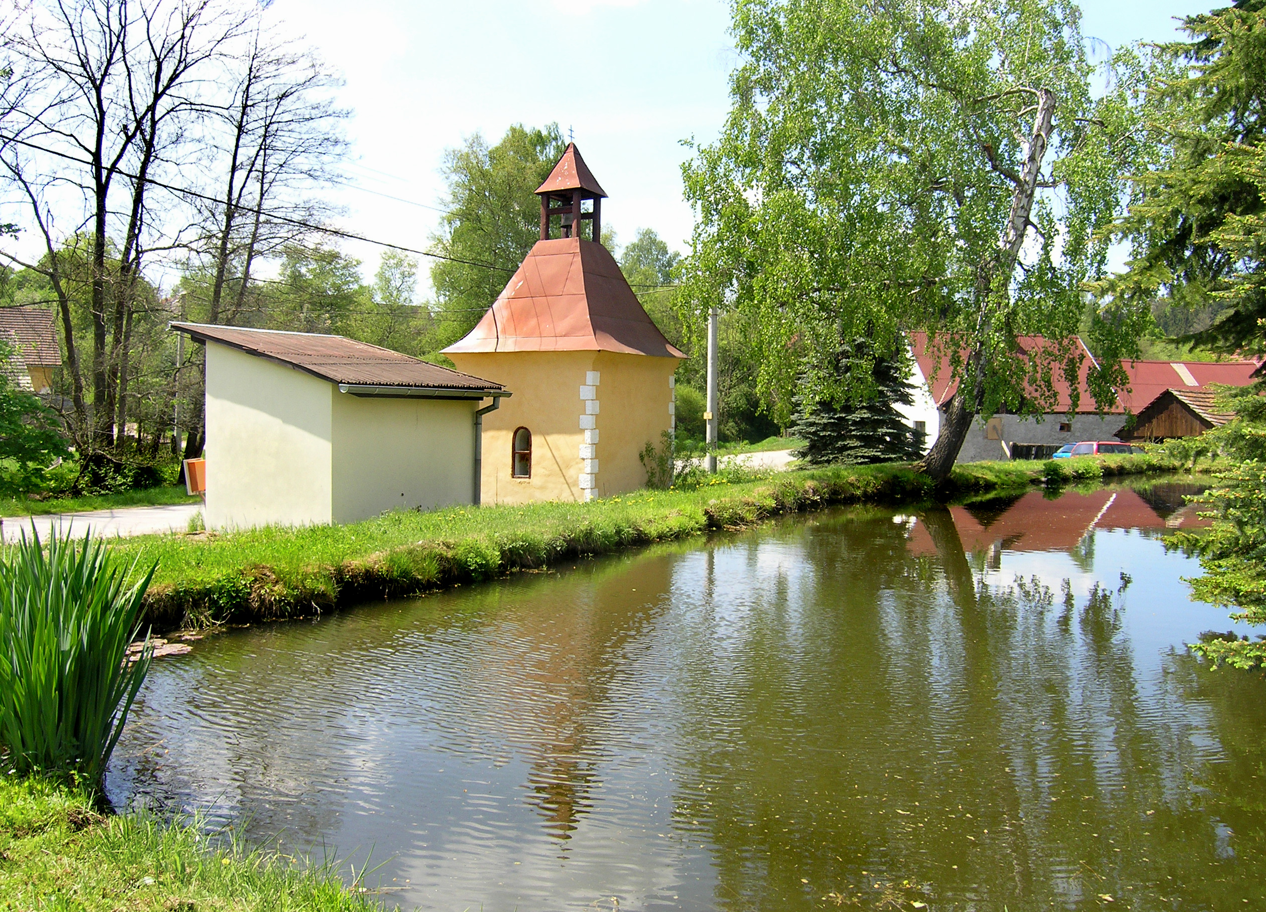 Common pond in Bučovice, part of Votice, Czech Republic